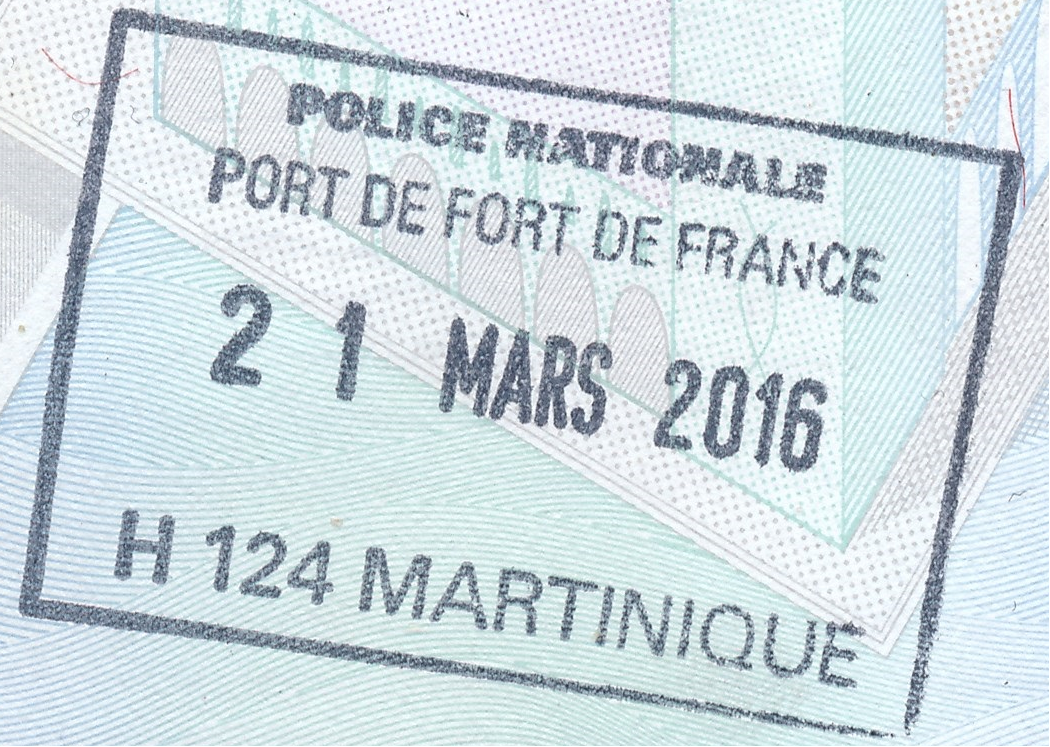 Entry stamp at the Saint-Pierre ferry dock (Martinique)